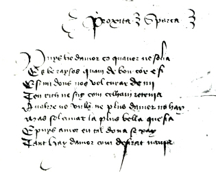 Manuscript facsimile of Puys he d’amor ço qu’aver ne solia by Gilabert de Próixita (the Proxita of the MS), labelled a sparsa in the MS, which is page 26 of the Cançoner Vega-Aguiló.